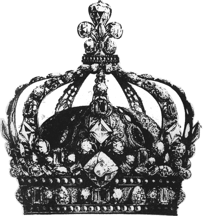 Engraving of the Crown of King Louis XV of France